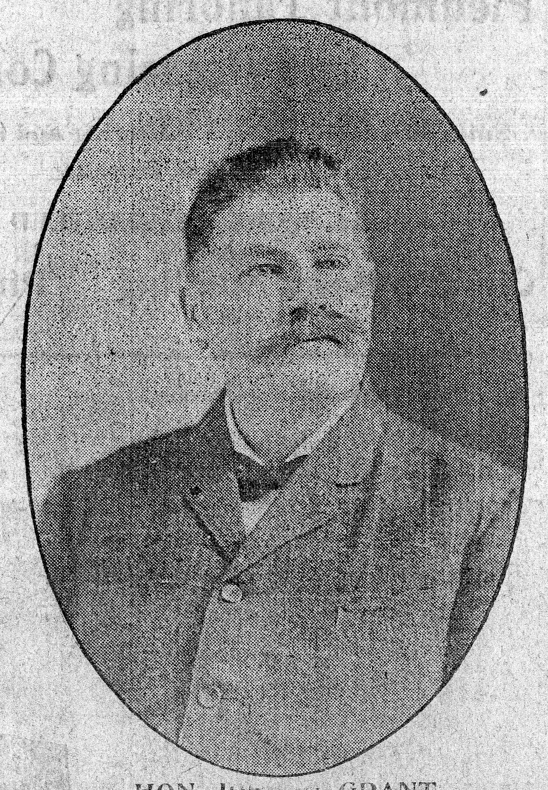 Photo with article detailing Grant's successful run for Congress.